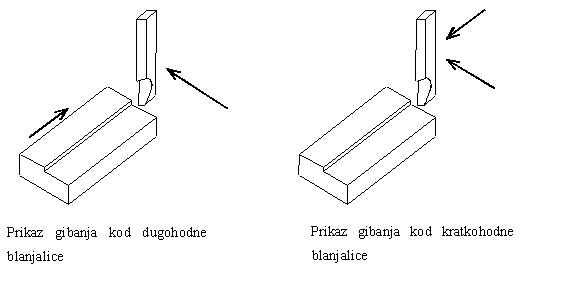 tool movement in a planing machine (left) and shaper or shaping machine (right)